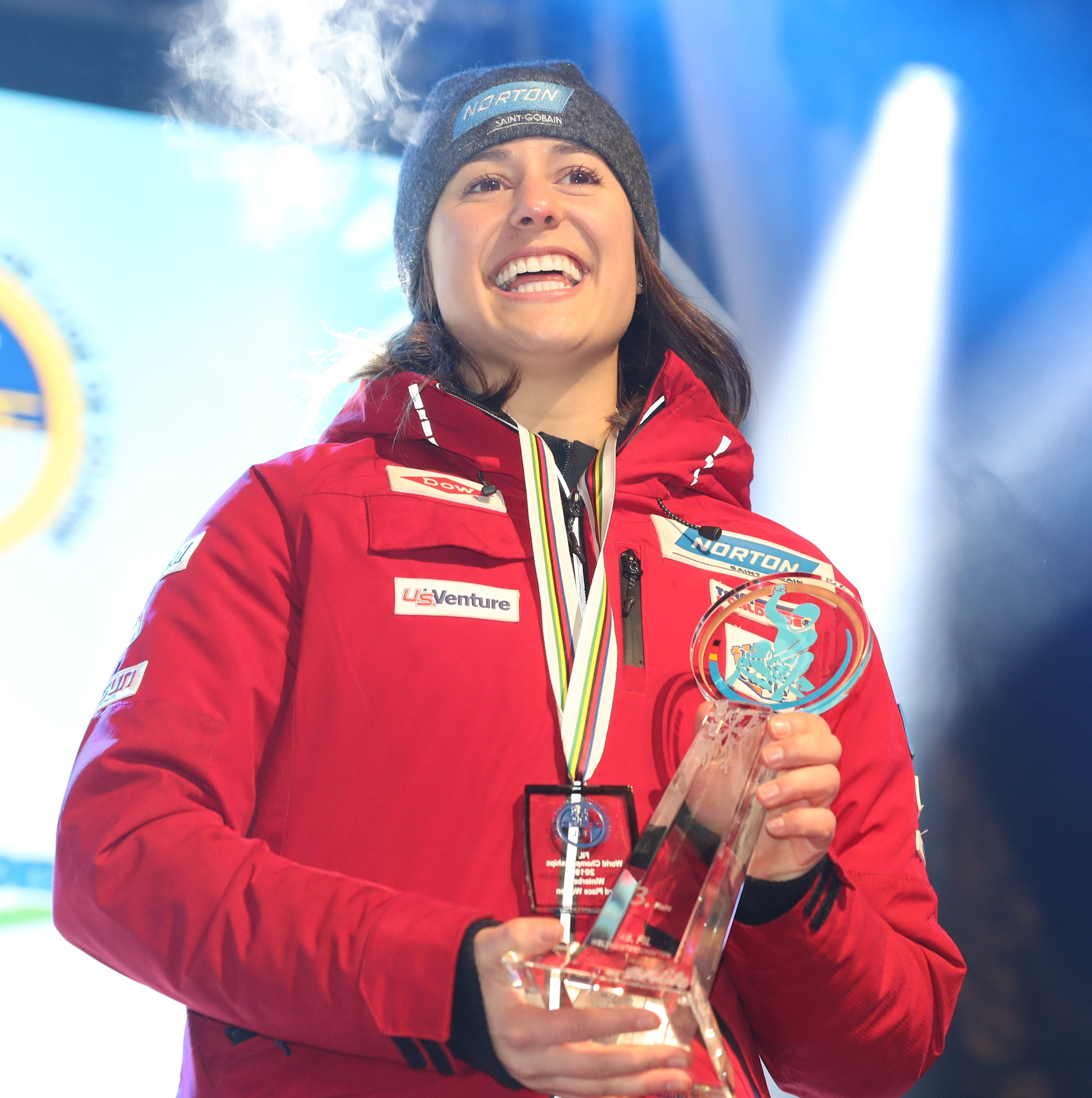 Victory ceremony for the Doubles and Women's race at the FIL World Luge Championships 2019 in Winterberg